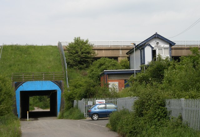 Horbury Junction Signal Box The signal box at Horbury Junction is next to the M1 Motorway embankment. The Horbury to Wakefield cycle path goes through the tunnel.